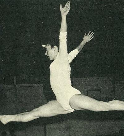 Auckland competitors at the New Zealand gymnastic championships 1964